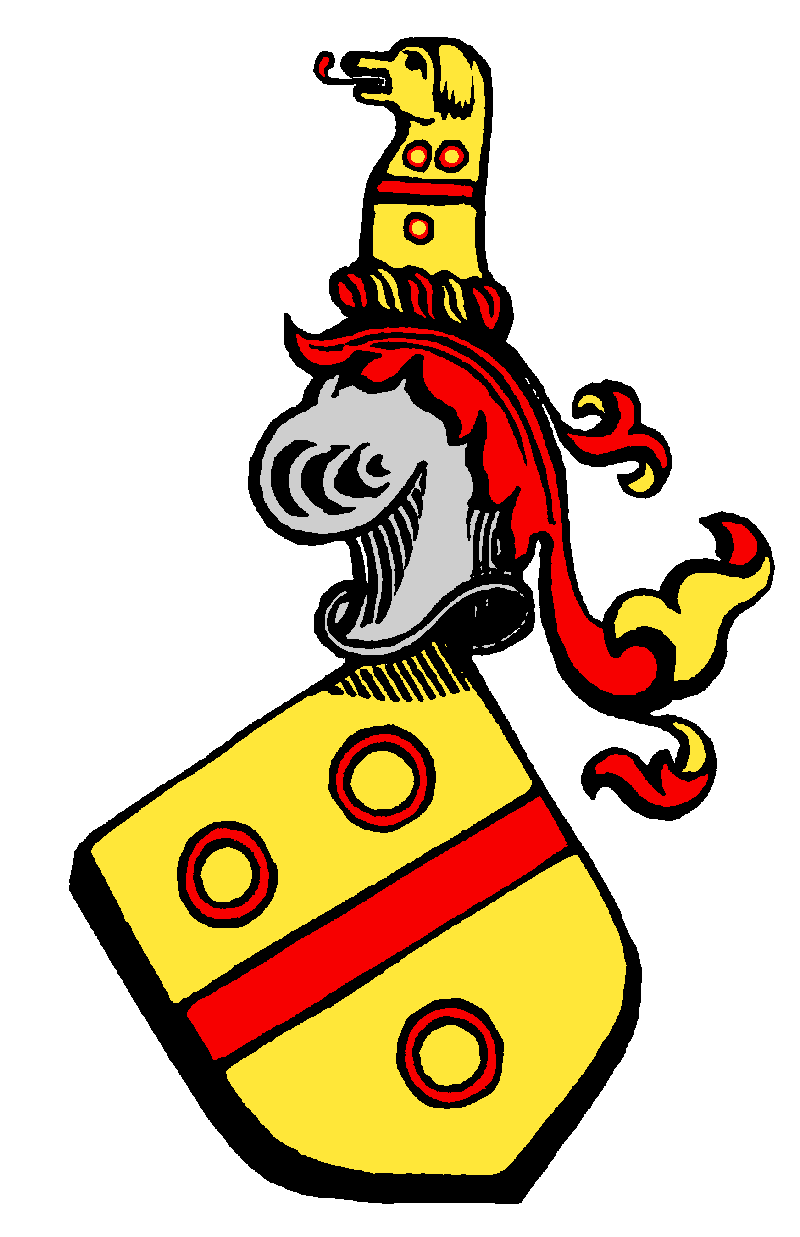 Coat of Arms of noble family Kalkum